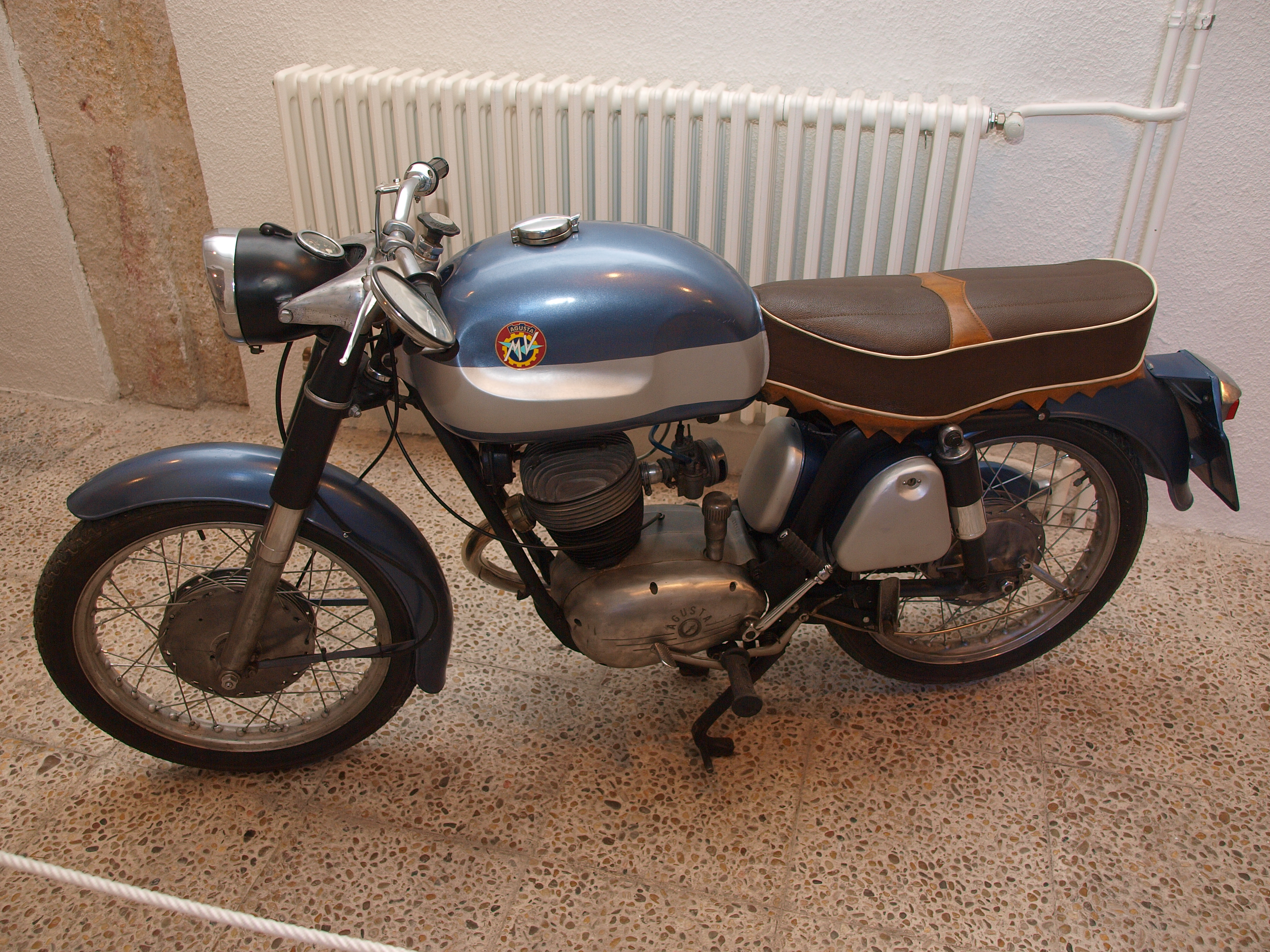 MV Agusta 150cc motorcycle (1965), at display in Zamora (Spain), III Show of the Asociacion Motociclista Zamorana (February 2013)